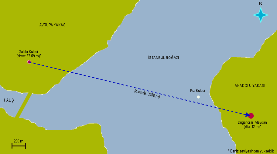 Hezârfen Ahmed Çelebi glider flight path over the Bosphorus from Galata Tower to Doğancılar Square (17th century)